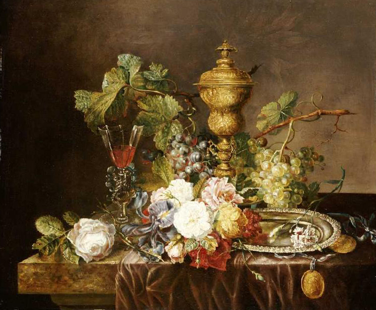 Emily Coppin Stannard, Floral still life with a silver-gilt cup, oil on canvas